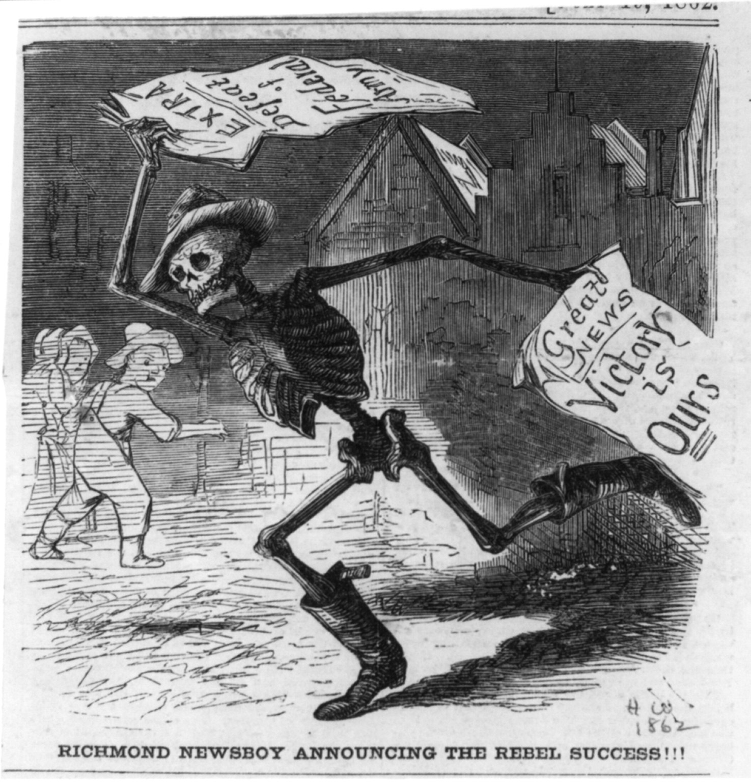 Title: Richmond newsboy announcing the rebel success!!! Abstract/medium: 1 print : wood engraving.